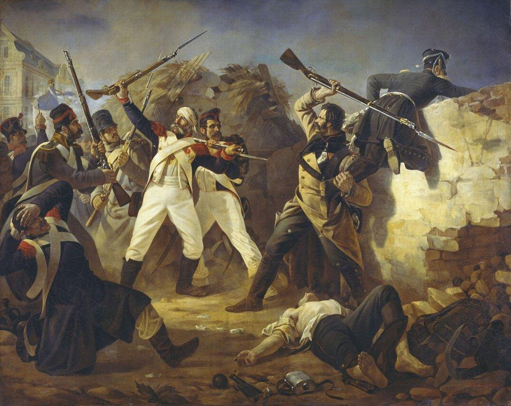 Feat of the grenadier of leib-guards Finnish regiment Leontiy Korennoy in the battle of Leipzig at 1813